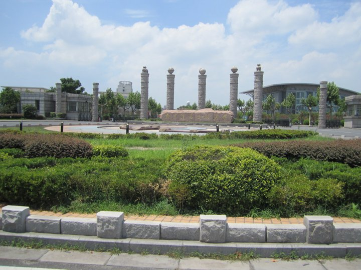 Main entrance Gate of NUIST on its East side at Ningliu Road